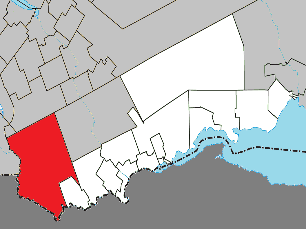 Location of Ruisseau-Ferguson, Quebec within Avignon Regional County Municipality.